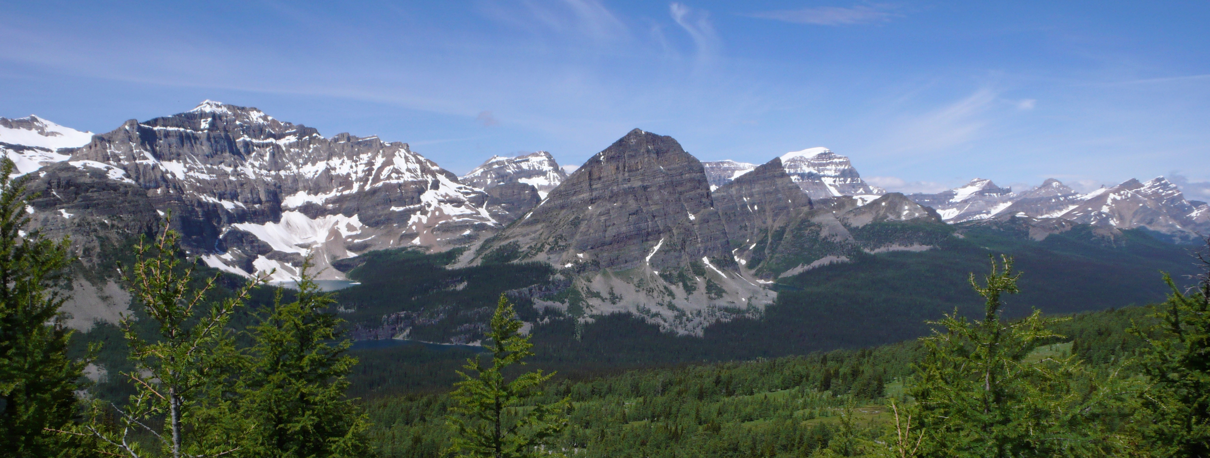 Egypt Lake and the Pharaoh range, looking North from Healy Pass. Banff Park, Canada